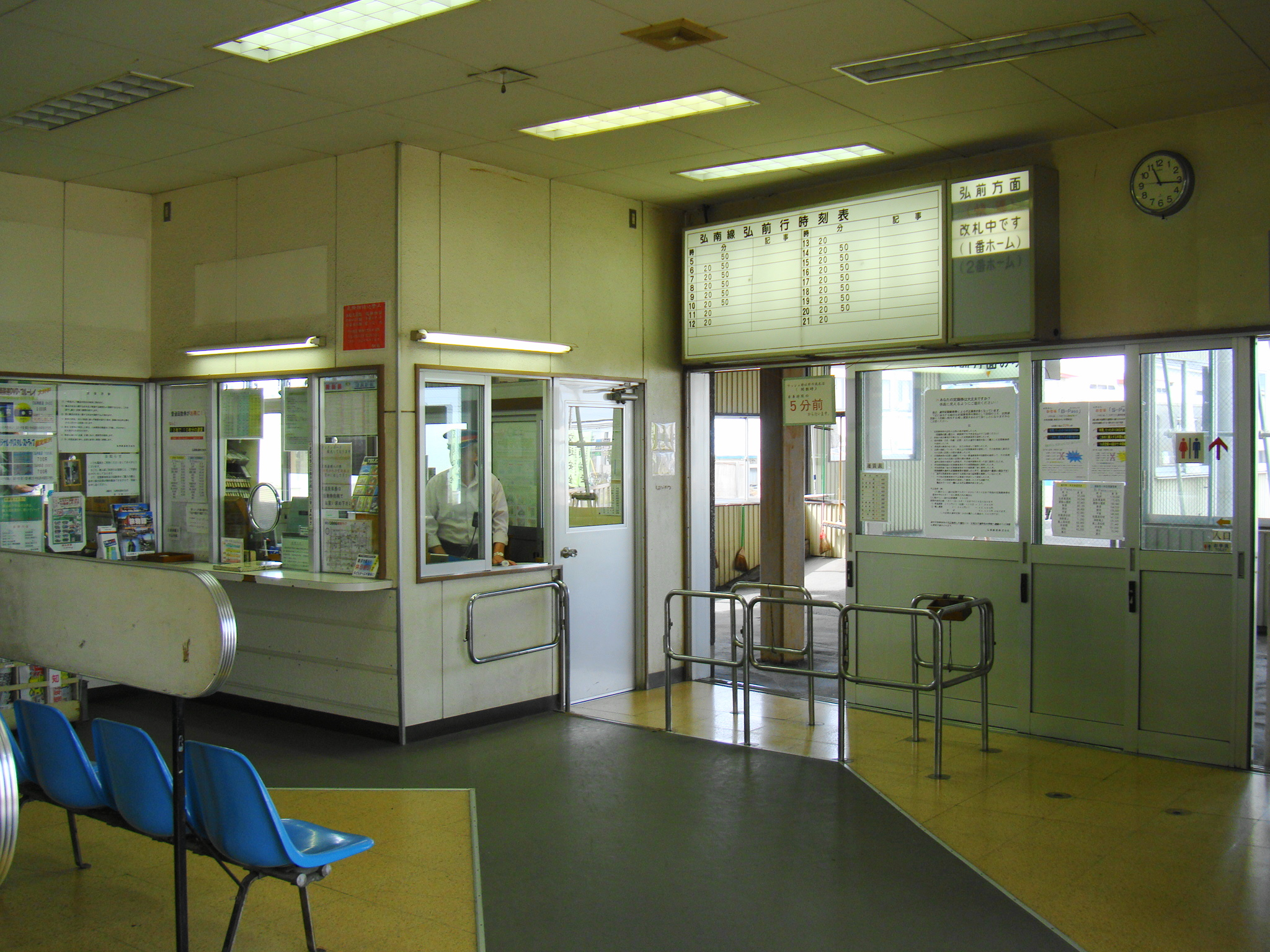 Kuroishi Station